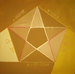 The serial "Mathemagic paintings" is published in the book "Martina Schettina - Mathemagische Bilder" Vernissage Verlag 2009. The diagonals divide each other in the golden ratio..